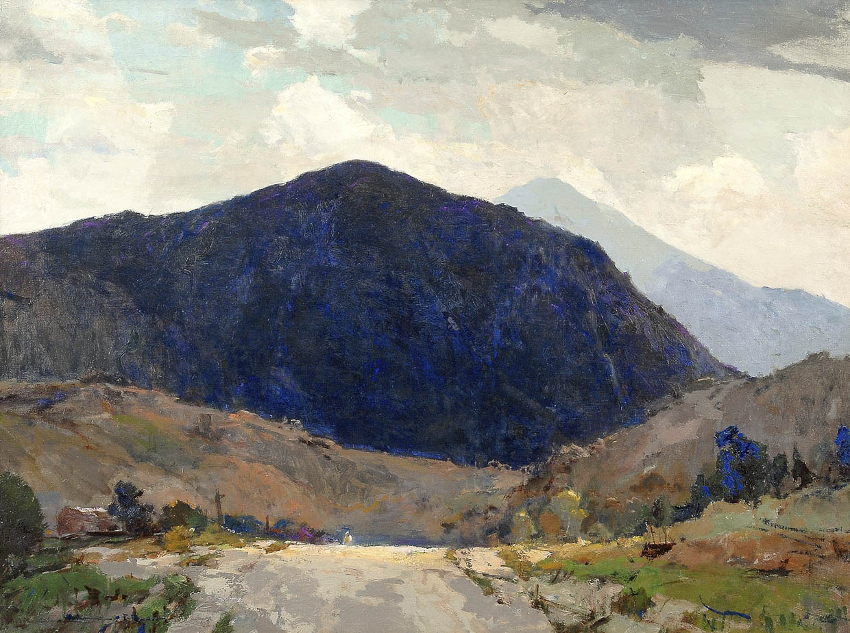 Gateway to North Carolina by Chauncey Ryder, oil on canvas, 45 x 60 in, c 1920, The Johnson Collection, Spartanburg, SC